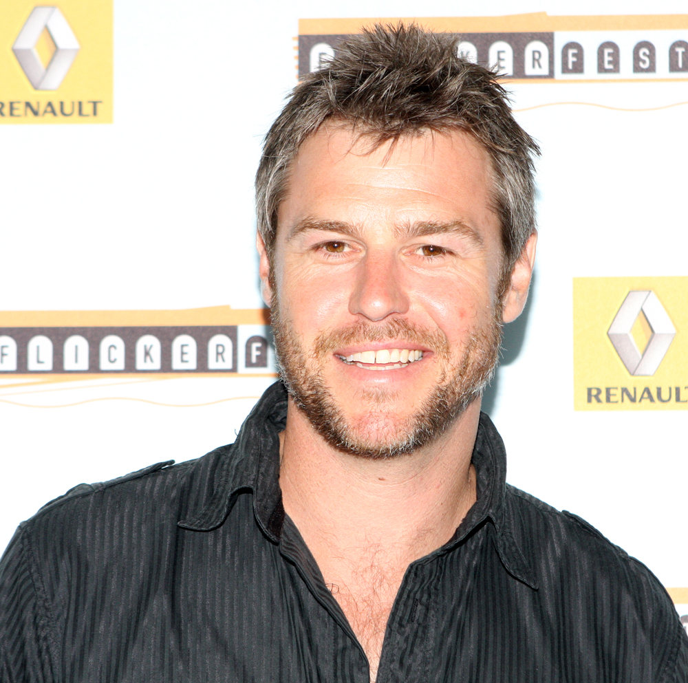 Rodger Corser attending the Flickerfest Short Film Festival at Bondi Pavilion, Bondi Beach, Sydney, Australia - 11th January 2013.